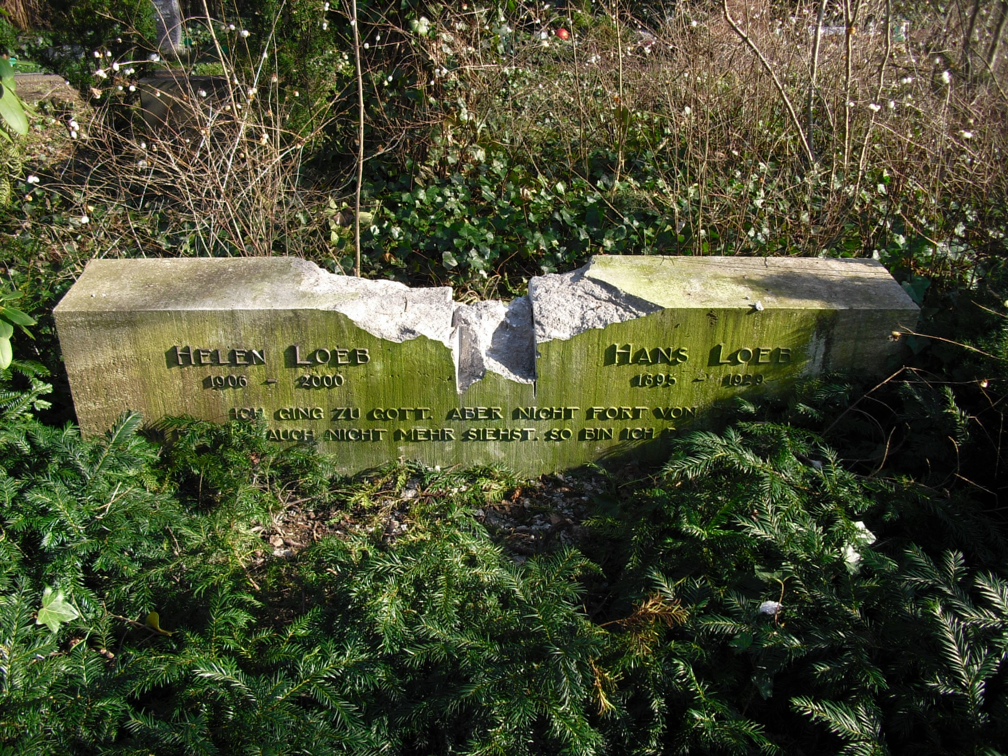 Grave of German aviator Hans Loeb 1895-1929) in Friedhof Steglitz, Berlin-Steglitz in February 2018 (without Ikaraus by Peter Breuer)